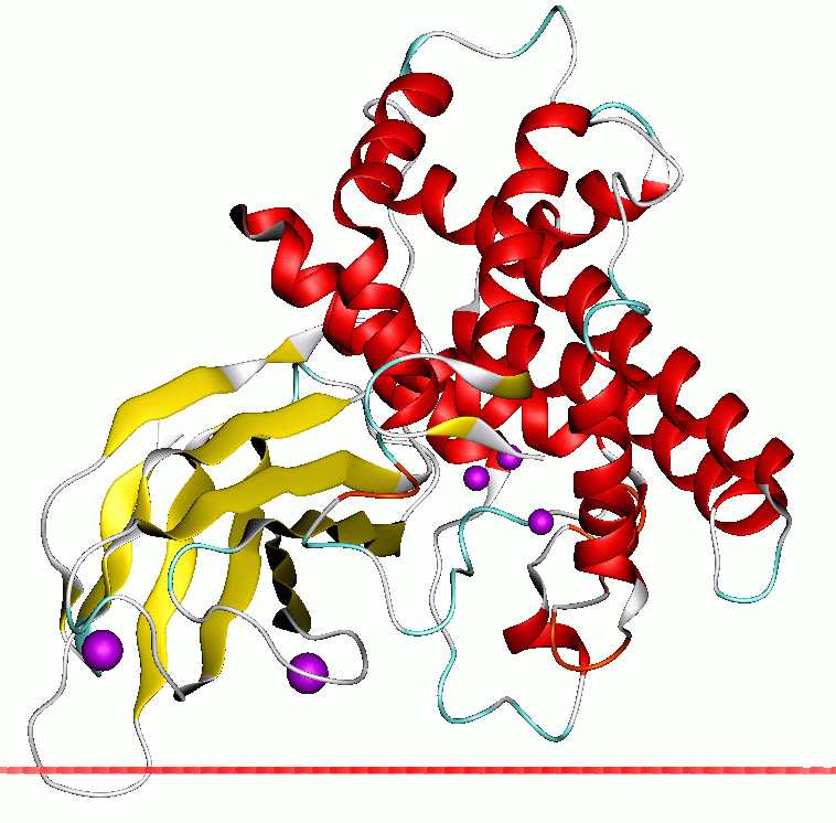 Protein image from OPM database